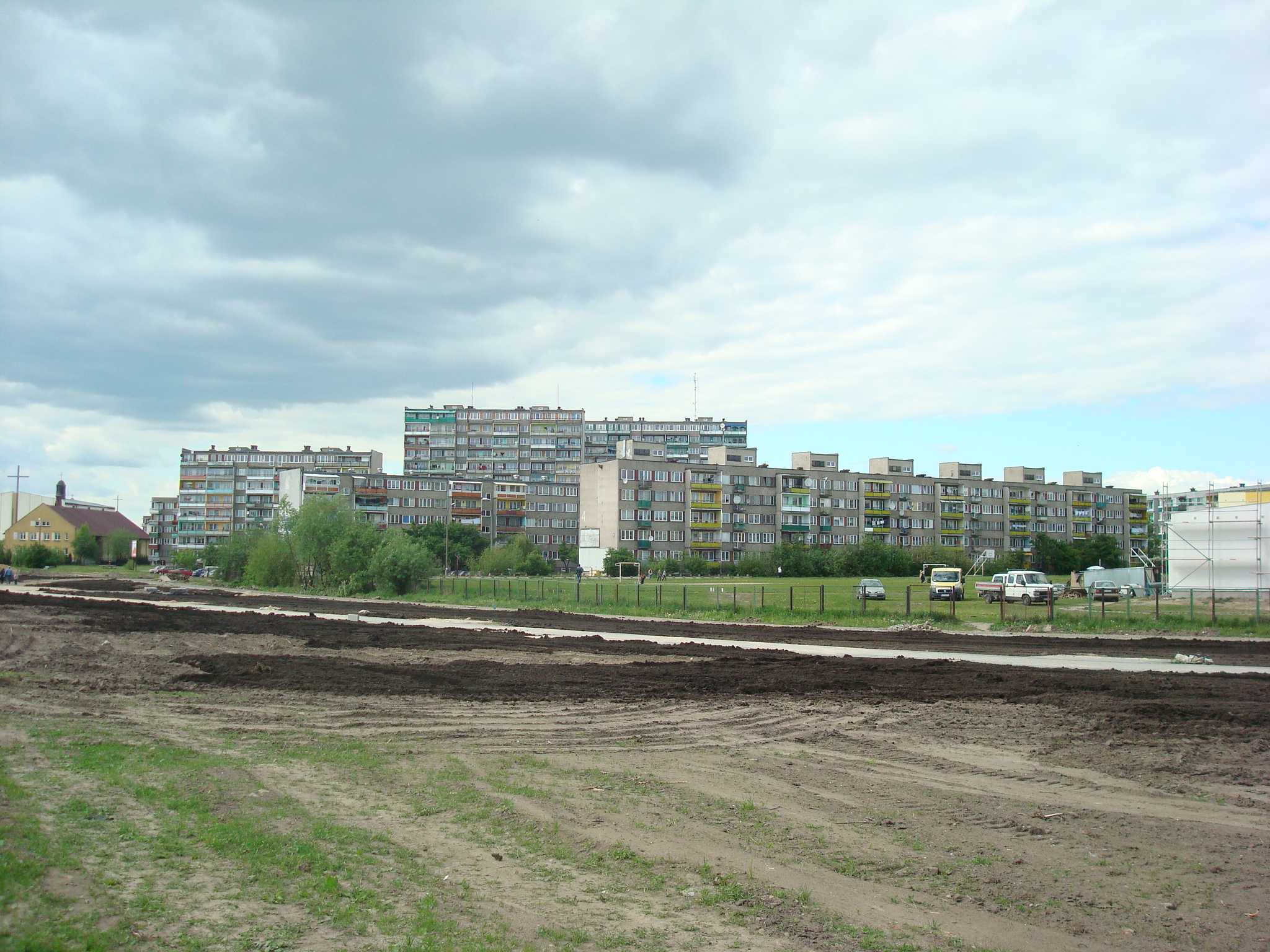 Housing estate of millennium in Siedlce (III period)